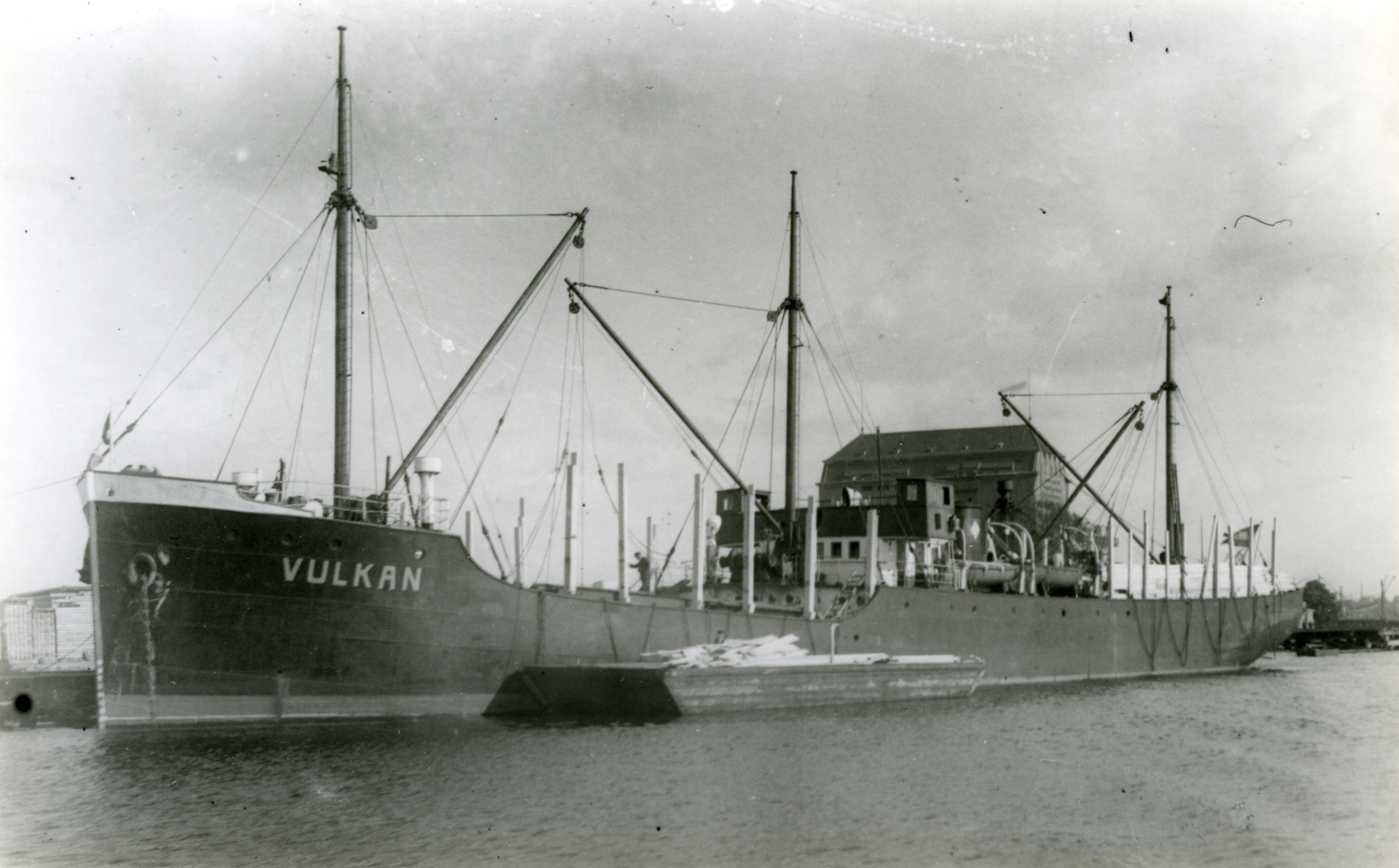 General cargo ship VULKAN (later IMO 5606606) built at Union Giesserei AG, Königsberg, Germany (yard № 230, launched: 1927, completed: 10-1927) for Ernst Komrowski Reederei GmbH, Hamburg, 28-06-1944 sunk by Soviet coastal artillery off Petsamo; collection J. Robert Boman (1926 - 2002) owned by Sjöhistoriska museet.